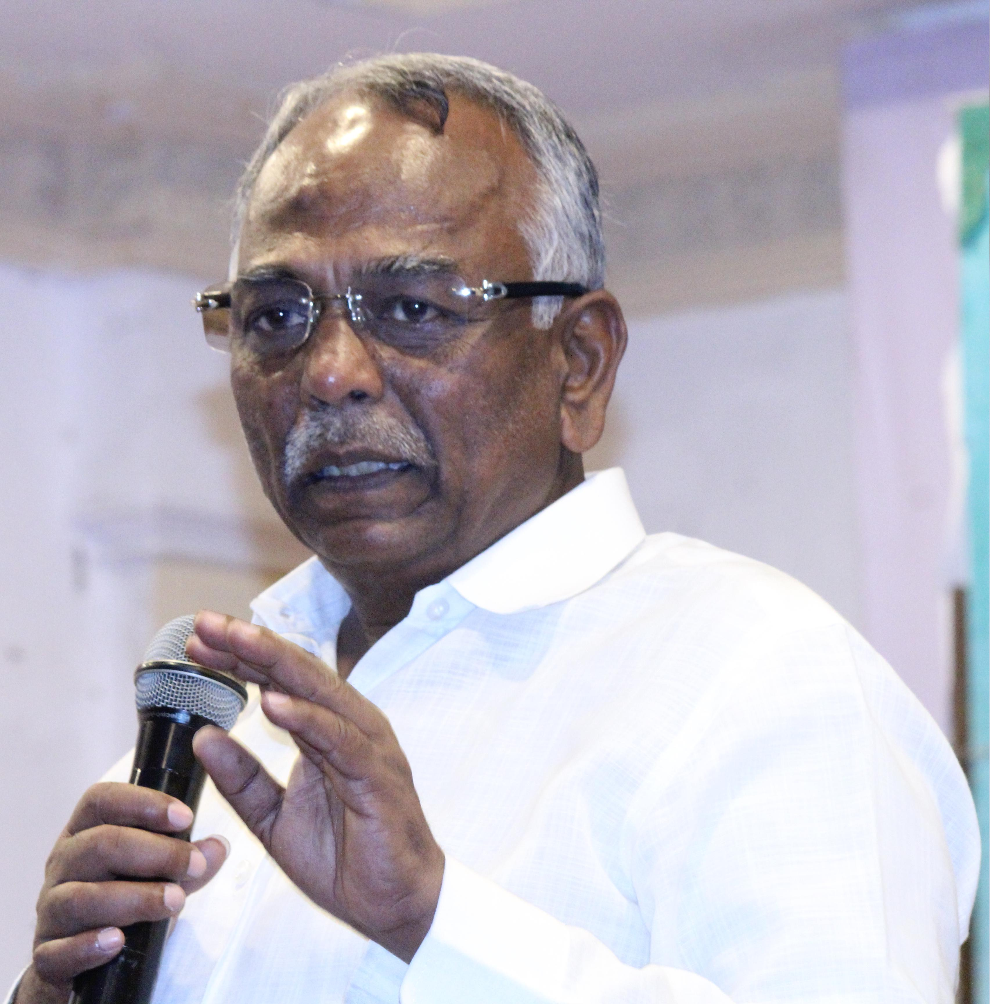 Pasham Yadagiri in Cinivaram, Ravindra Bharathi, Hyderabad